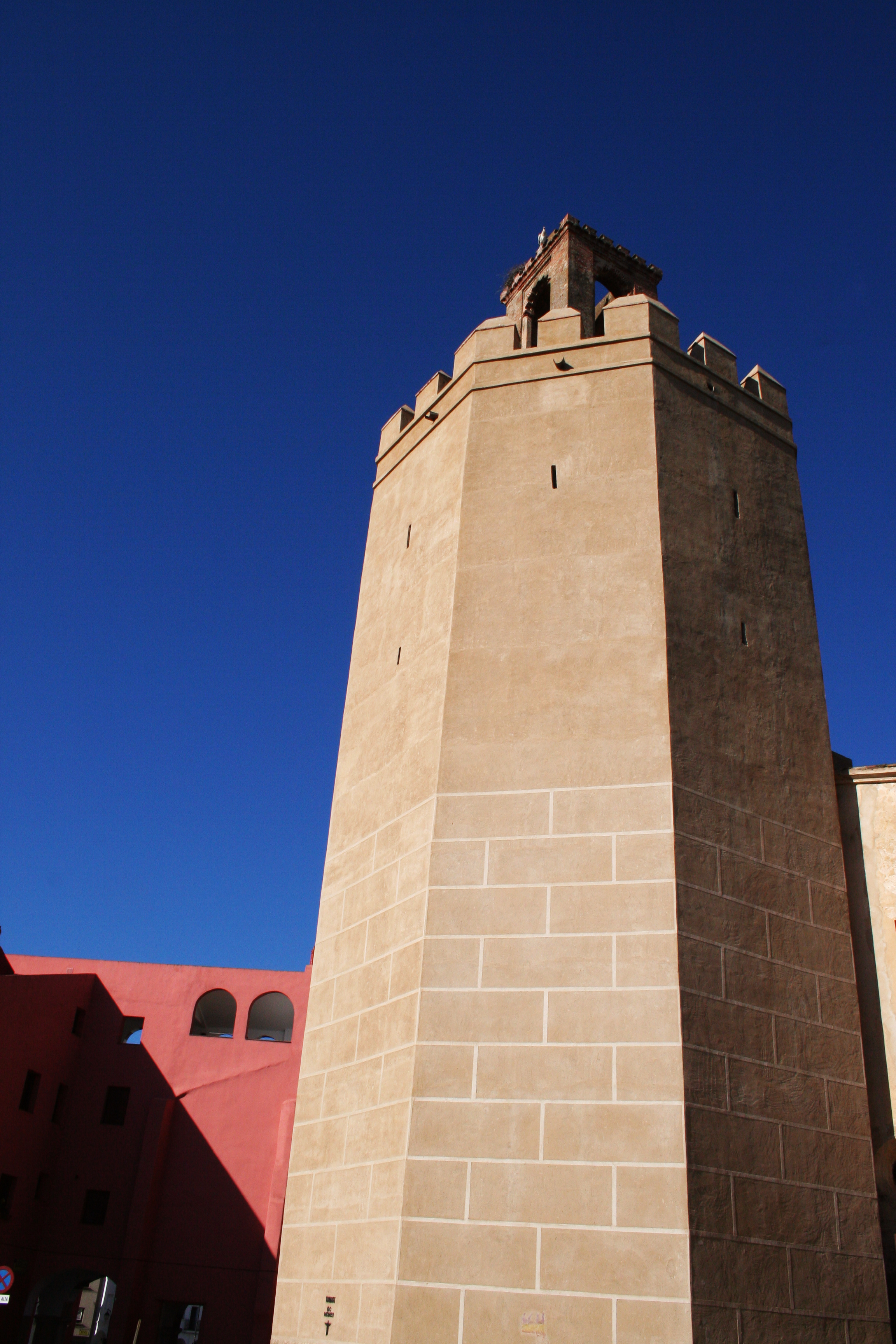 Espantaperros's tower of Badajoz or Tower of the watchtower constructed by the almohades in the 12th century, The Mudejar auction in the top part was added in the 16th century. It(she) is placed in the oriental part of the Fort of Badajoz. It is one of the best examples of military Islamic architecture together with the Tower of the Gold of Seville